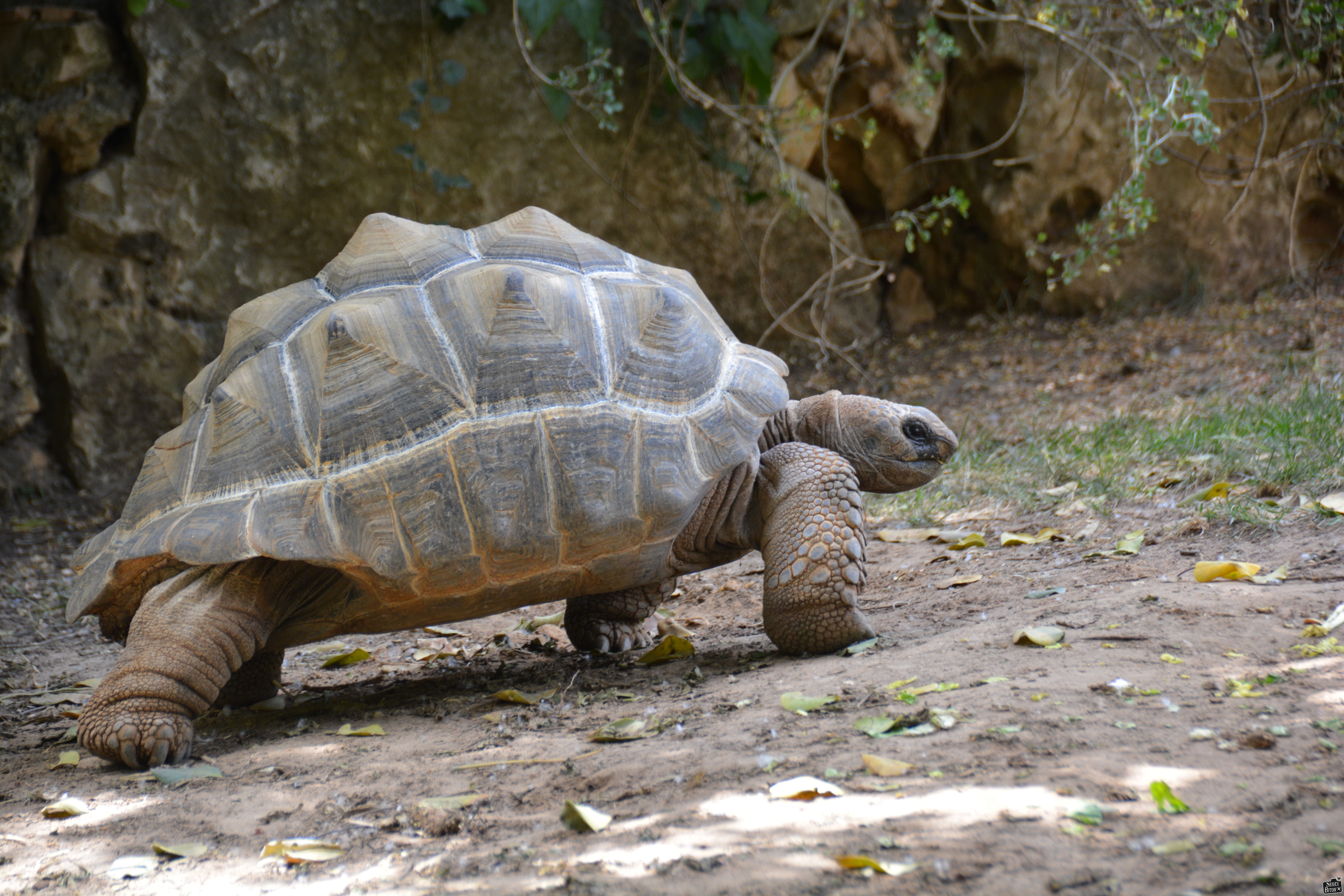 Biblical Zoo in Jerusalem